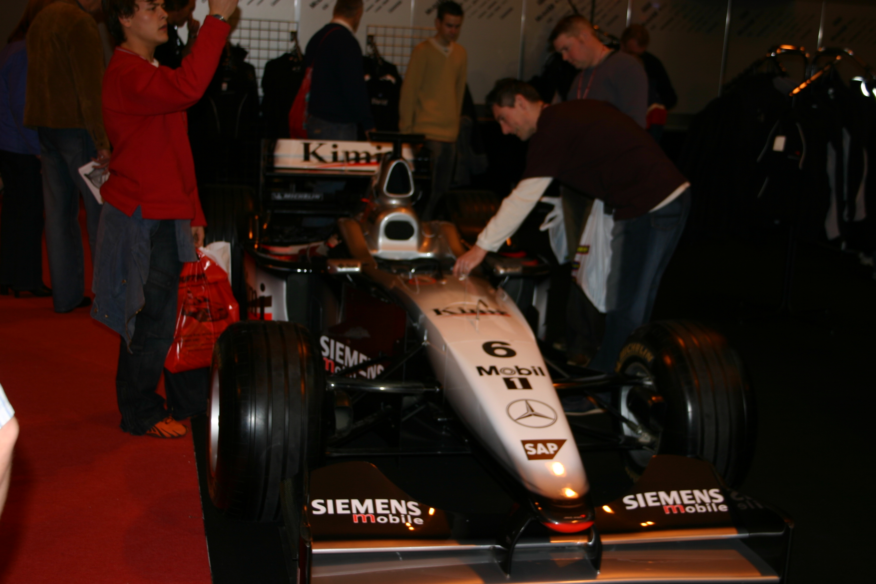 Autosport International auto show, January 10, 2004, N.E.C., Birmingham, UK.